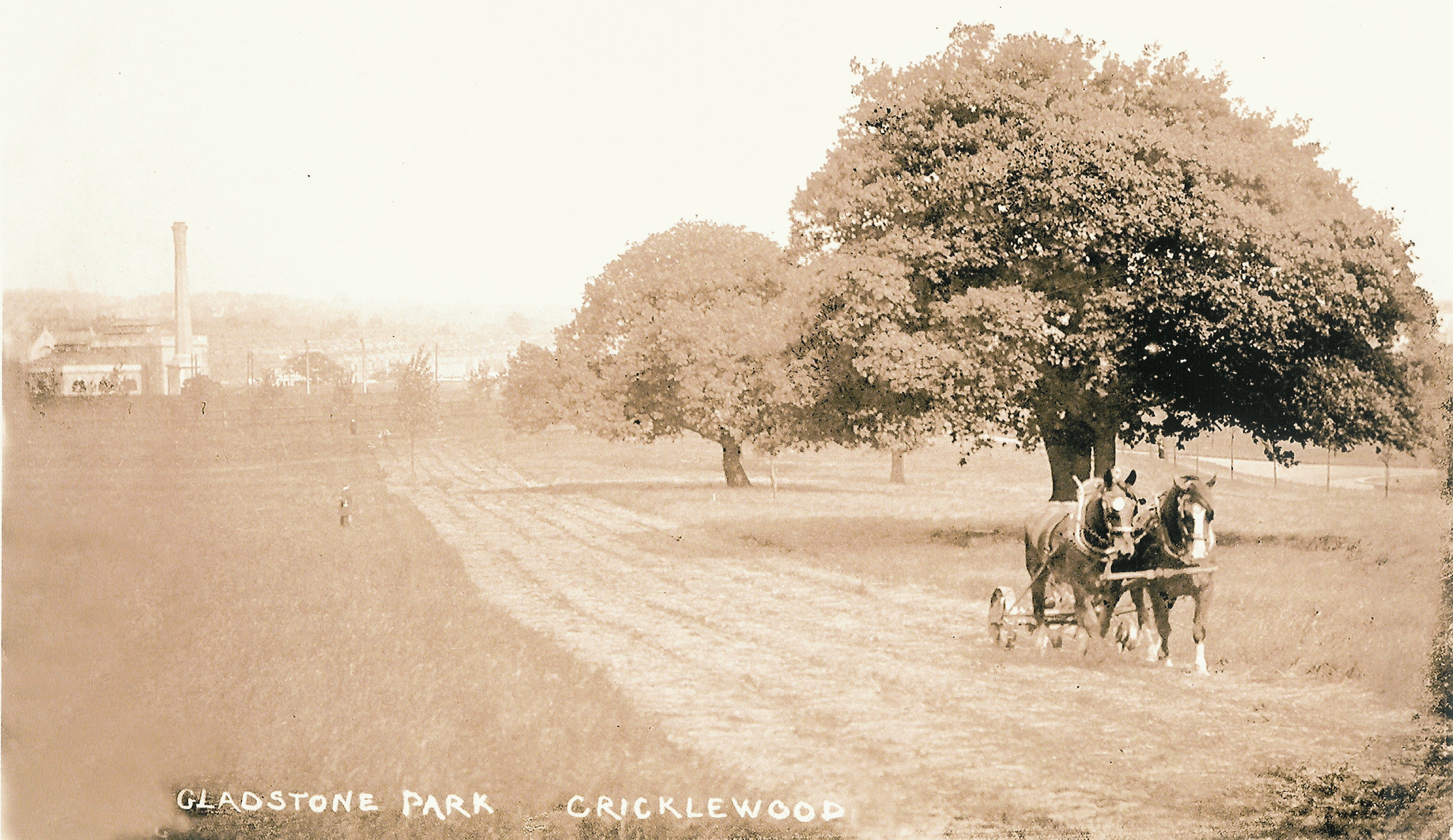 Gladstone Park, circa 1900.